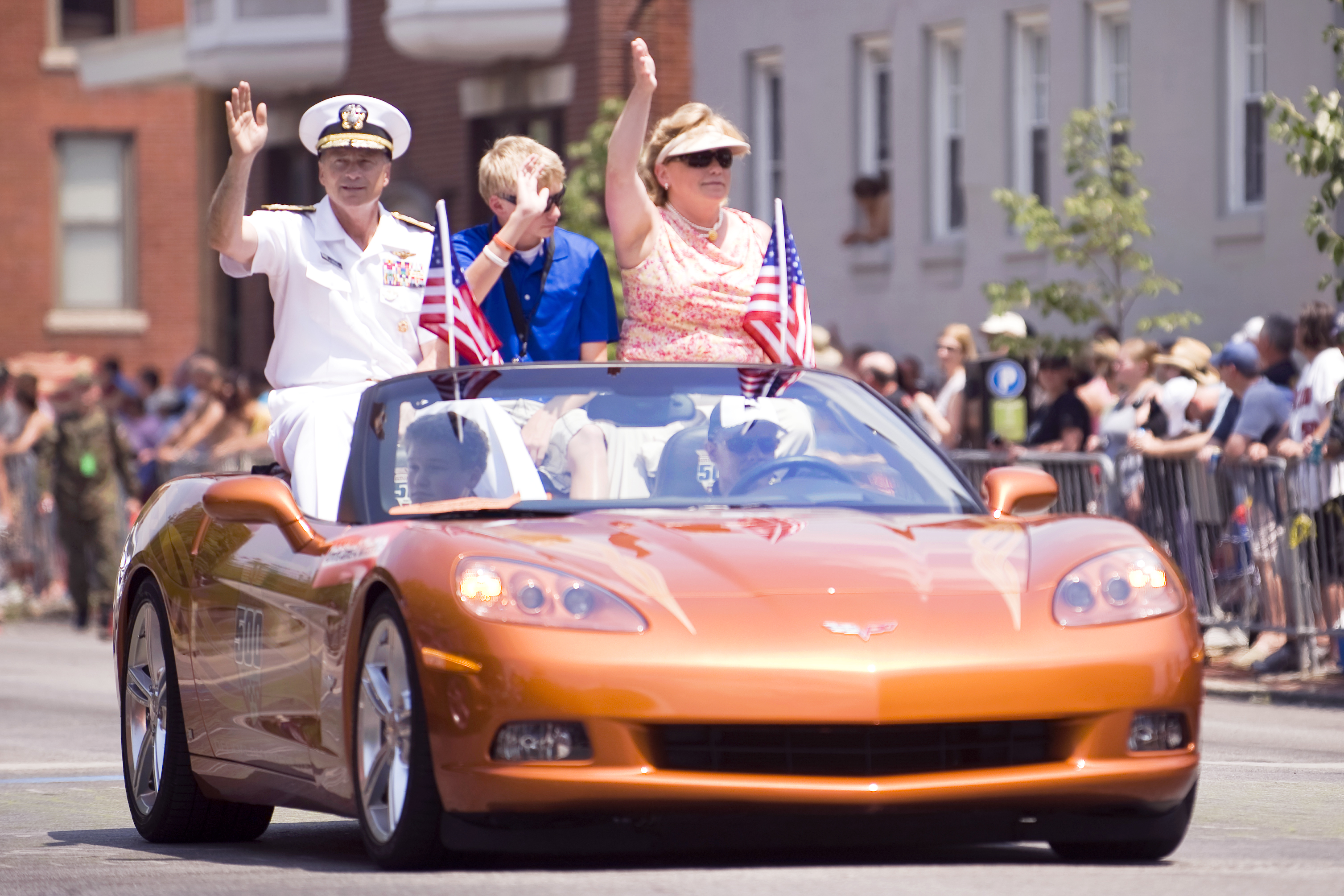 Navy Adm. James A. Winnefeld Jr., vice chairman of the Joint Chiefs of Staff, and his family ride in a Chevrolet Corvette, the official Indy 500 pace car, through the 500 Festival Parade in Indianapolis, May 26, 2012.